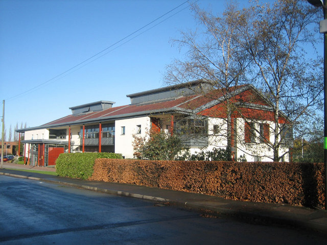 Bamford Library Bamford Library at the Harper Adams University College, Edgmond